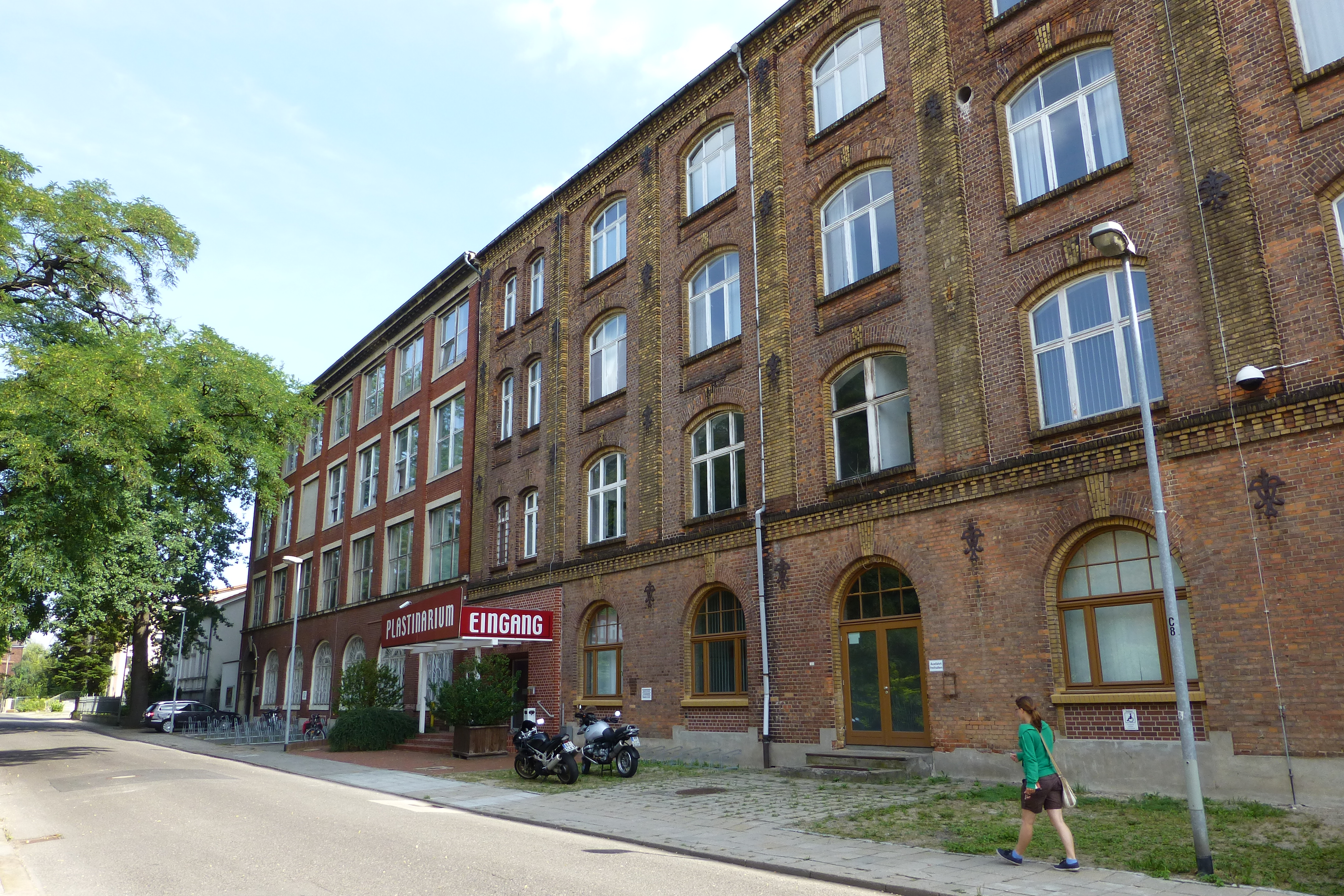 Gunther von Hagens' Plastinarium , Uferstraße, Guben, Germany, former cloth factory Lehmann & Richter